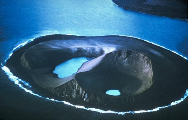 Two water-filled vents cap Jolnir Island on August 22, 1966, less than two weeks after it ceased erupting. Jolnir was formed during repeated submarine eruptions that began in October 1965 immediately SW of the new island of Surtsey (upper right). Jolnir Island was repeatedly built above sea level and then destroyed by erosion before it ceased activity on August 10. No lava flows were produced at Jolnir, and a month after this photo was taken the loosely consolidated ash deposits disappeared beneath the sea for the final time.